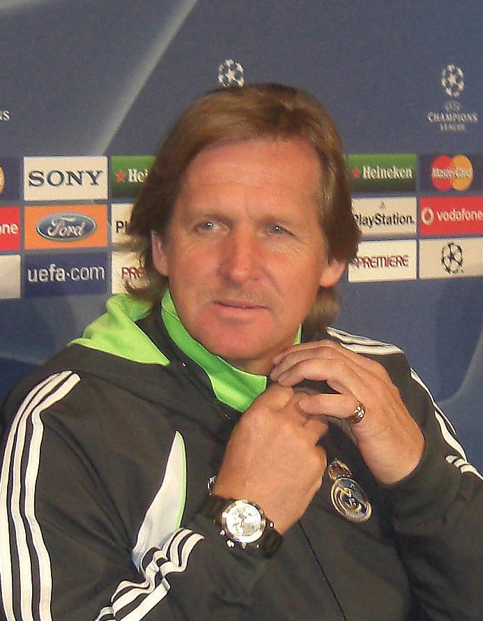 Champions League-Match Werder Bremen - Real Madrid 2:3